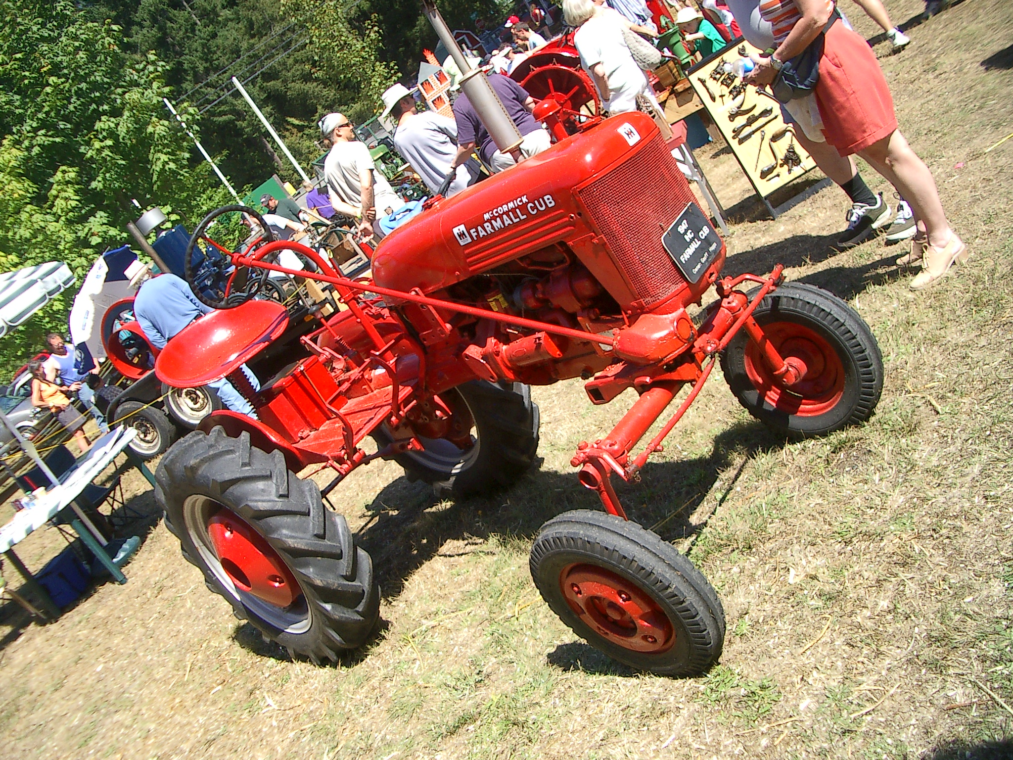 Farmall CUB tractor